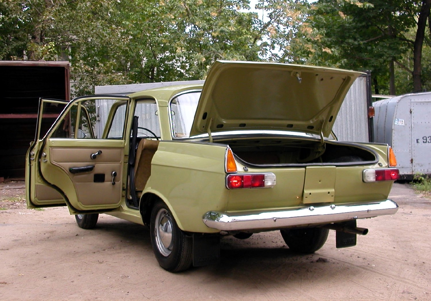 1974 Izh-Moskvitch-412IE rear view